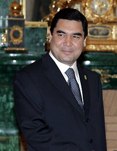 Gurbanguly Berdimuhammedow, the President of Turkmenistan.